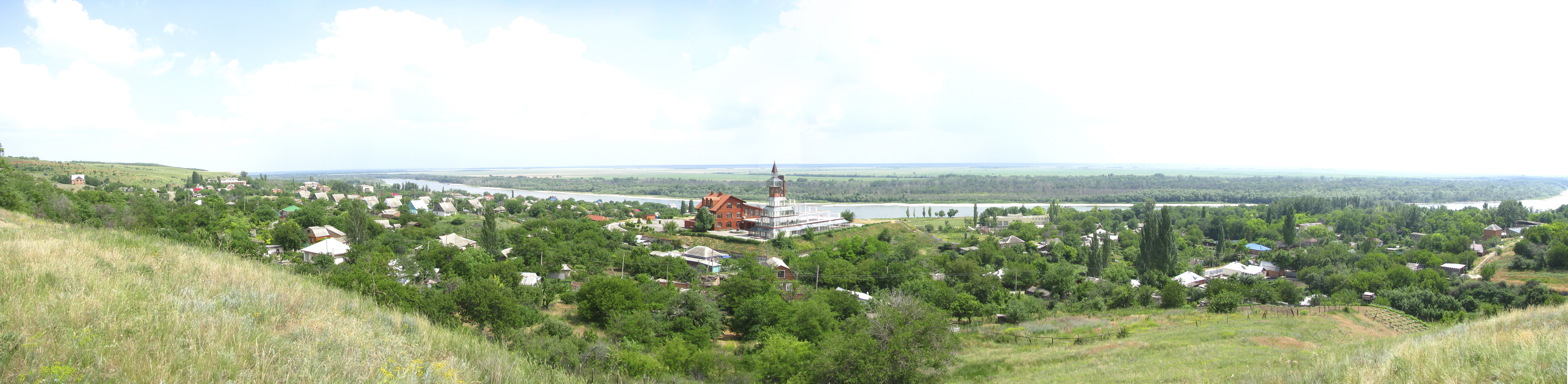 View of of the village Puhlyakovsky in Ust-Donetsky District of Rostov Oblast, Russia